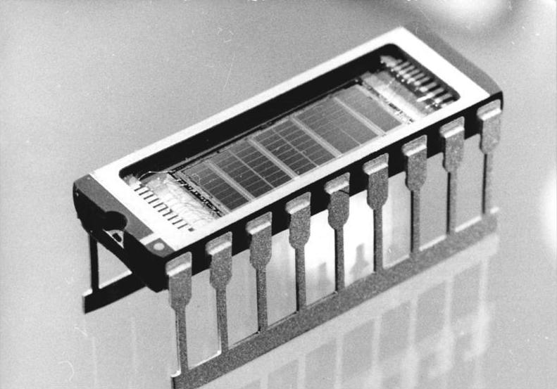 First 1 Mb DRAM Chip U61000D (1024k x 1 Bit) made in GDR.